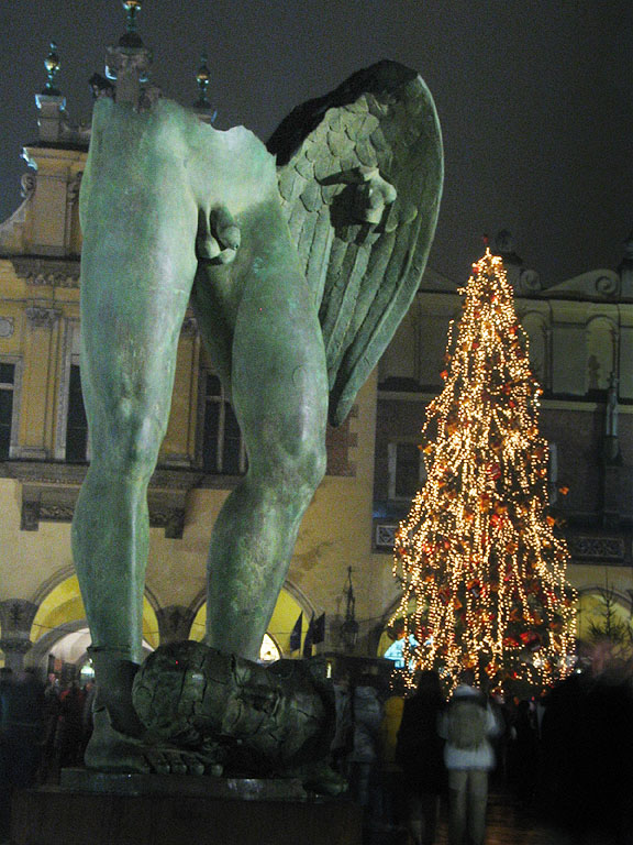 Igor Mitoraj's sculpture, Gambe Alate (bronze), 2002 Exhibition "Igor Mitoraj - Sculptures and Drawings" (October 17 2003 to January 25 2004) at marketplace in Kraków. In the bacground: Sukiennice (cloth hall).